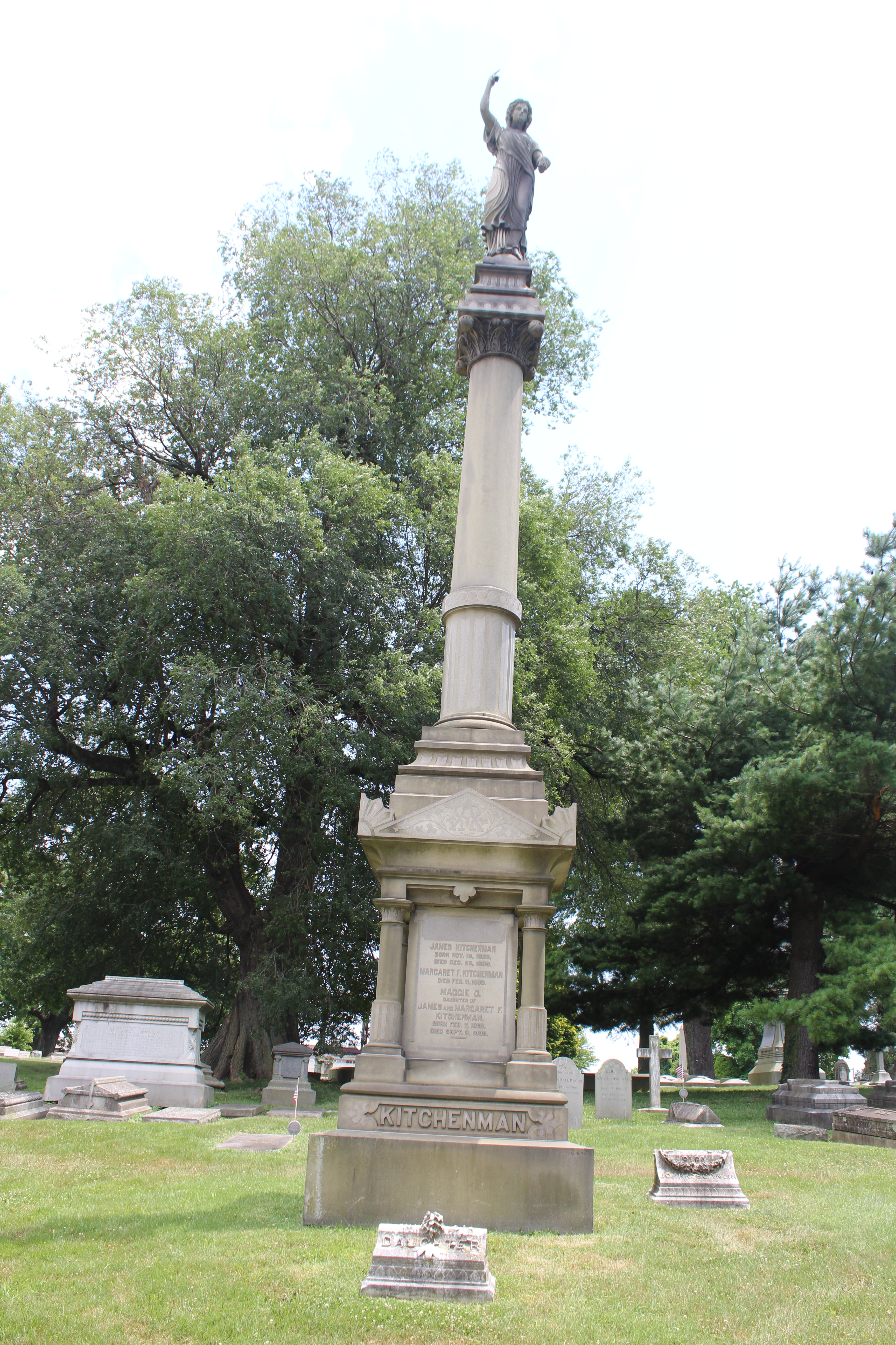 James Kitchenman memorial in Laurel Hill Cemetery. Photo taken July 2020.